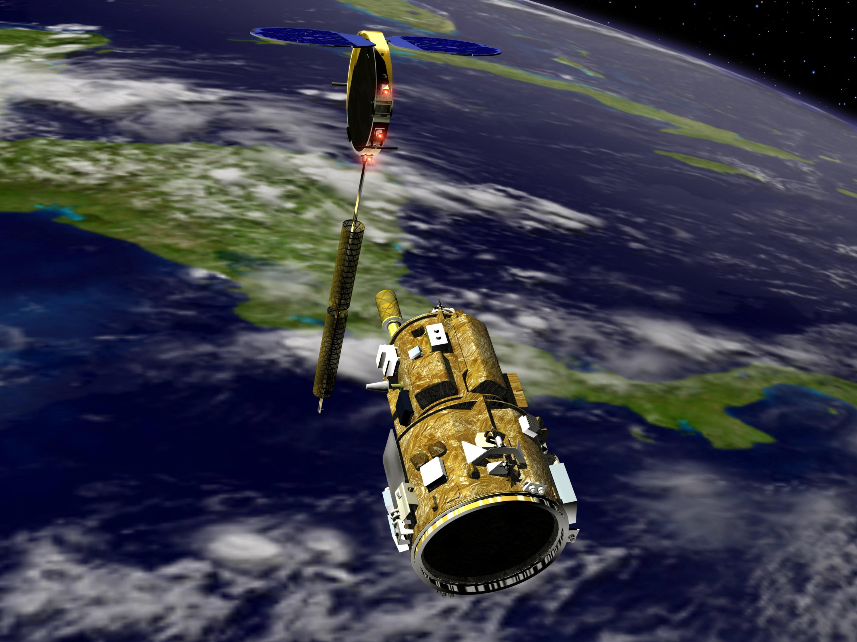 An artist’s conception of the autonomous Demonstration for Autonomous Rendezvous (DART) spacecraft as it approaches the Multiple Paths, Beyond-Line-of-Site Communications (MUBLCOM) satellite. NASA is testing the DART as a docking system for next generation vehicles to guide spacecraft carrying cargo or equipment to the International Space Station, or retrieving or servicing satellites in orbit. Before the new system can be implemented on piloted spacecraft, it has to be tested in space. The computer-guided DART is equipped with an Advanced Video Guidance Sensor and a Global Positioning System that can receive signals from other spacecraft to allow DART to move within 330 feet of the target. DART is scheduled to launch from Vandenberg Air Force Base in California no earlier than Oct. 18. It will be released from a Pegasus XL launch vehicle carried aloft by an Orbital Sciences Corporation aircraft. The fourth stage of the Pegasus rocket will remain attached as an integral part of the spacecraft, allowing it to maneuver in space. Once in orbit, DART will race toward the target, the MUBLCOM satellite, for a rendezvous.